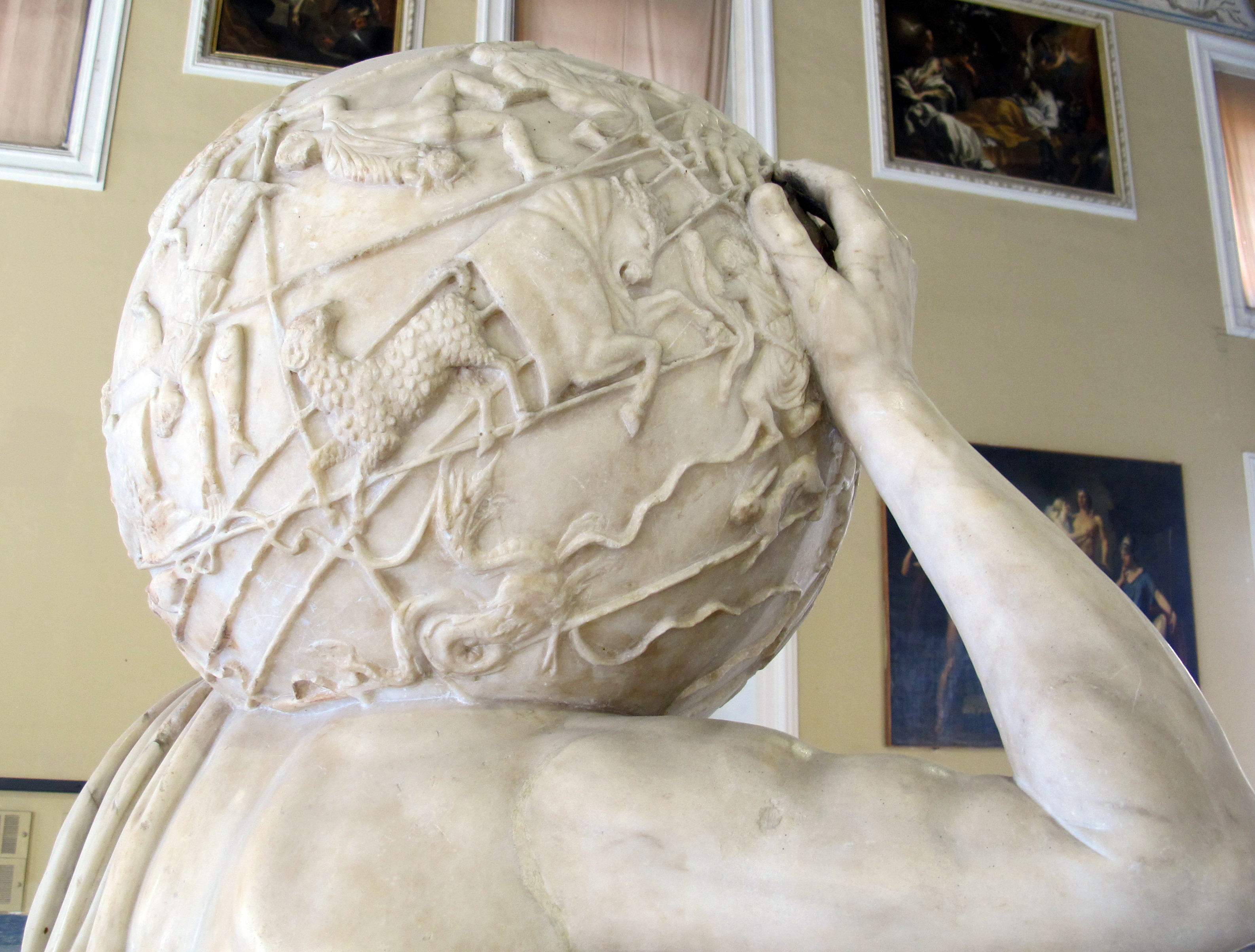 Ancient Roman statues in the Museo Archeologico (Naples)